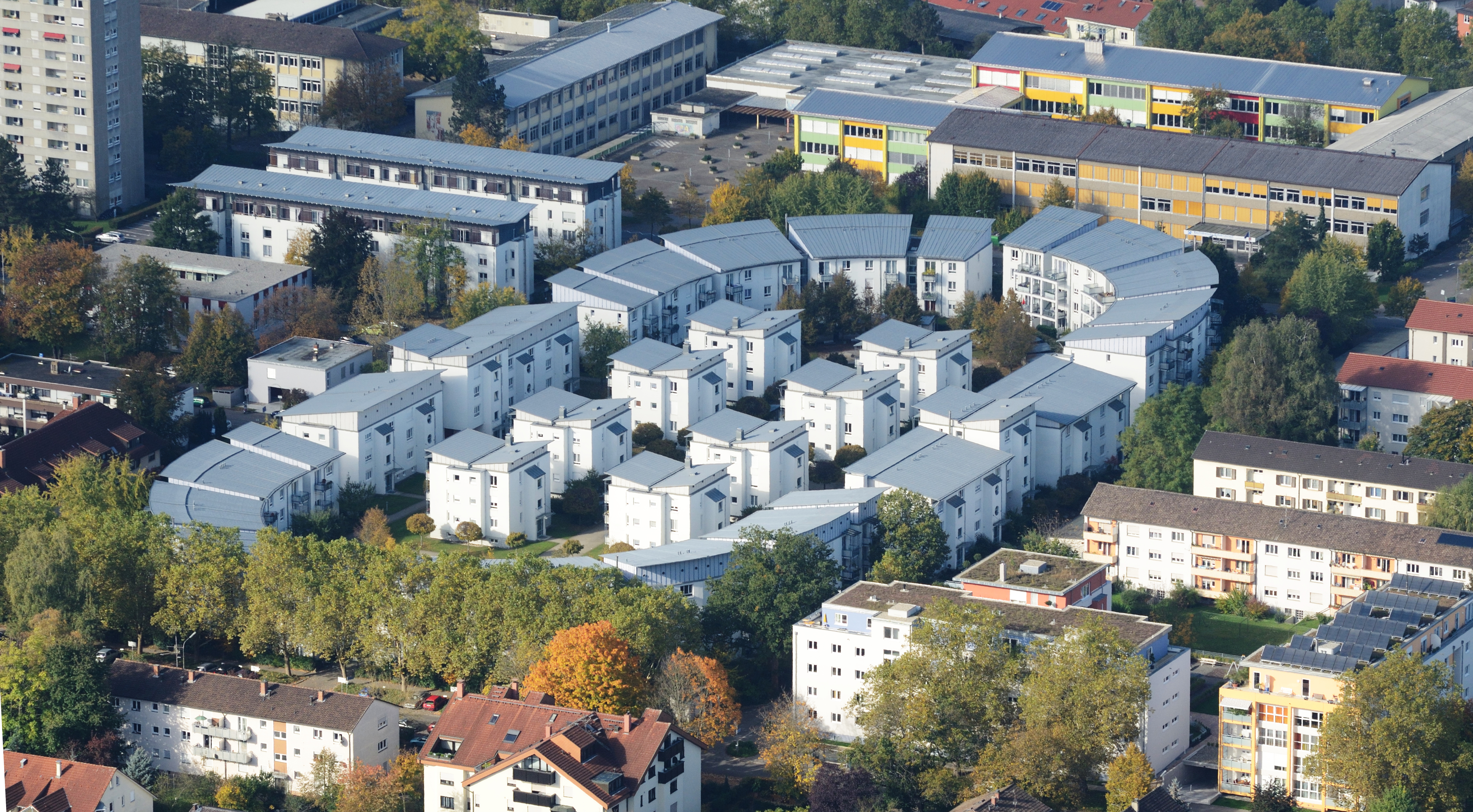 Aerial view of condominium "stadium" in Lörrach